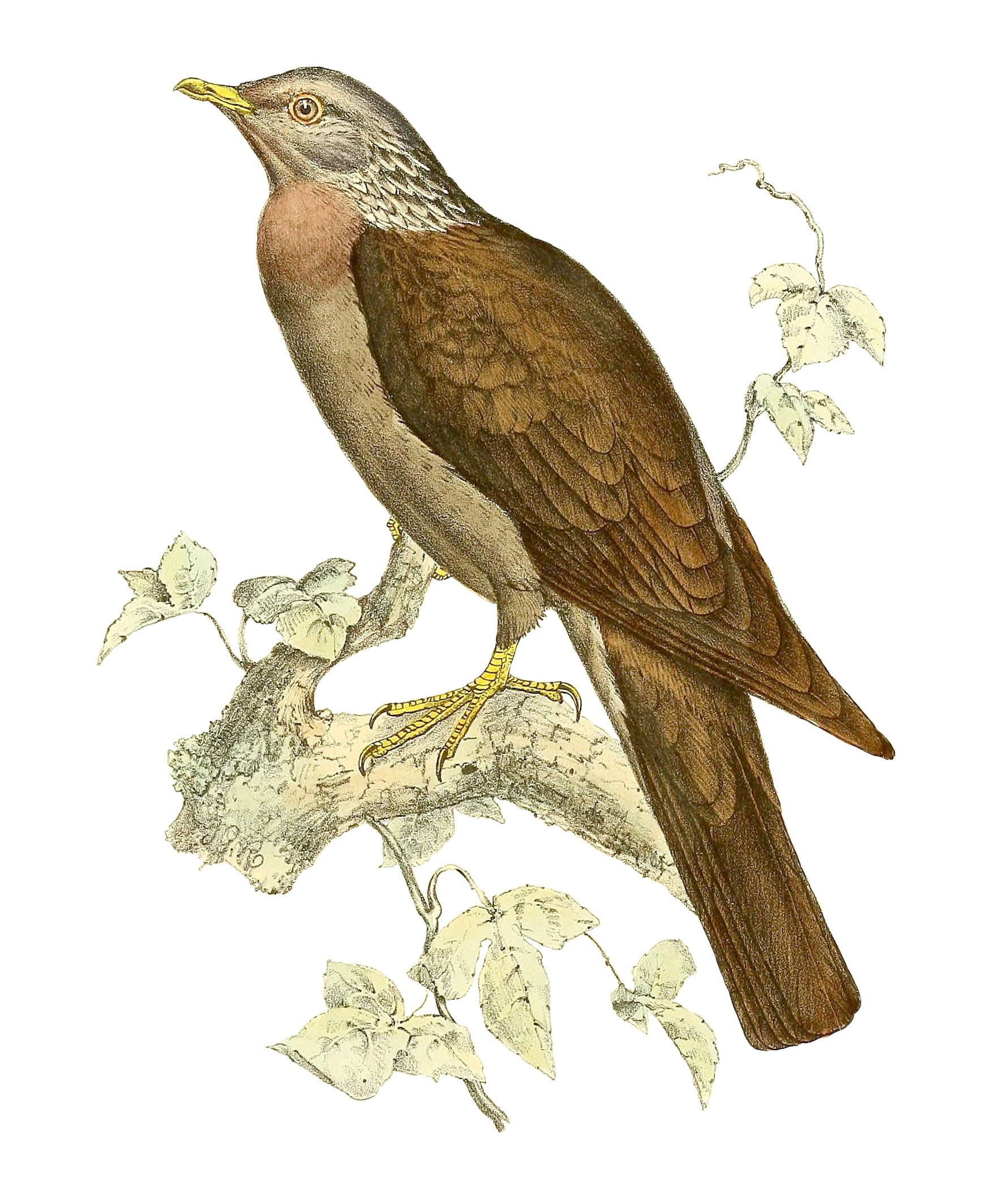 Columba polleni = Columba pollenii (Comoro Olive-pigeon), adult